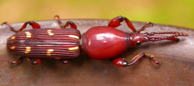 Brentid weevil from Wynaad